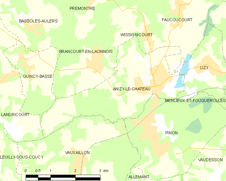 Map of French commune: Anizy-le-Château Map commune FR insee code 02018.png